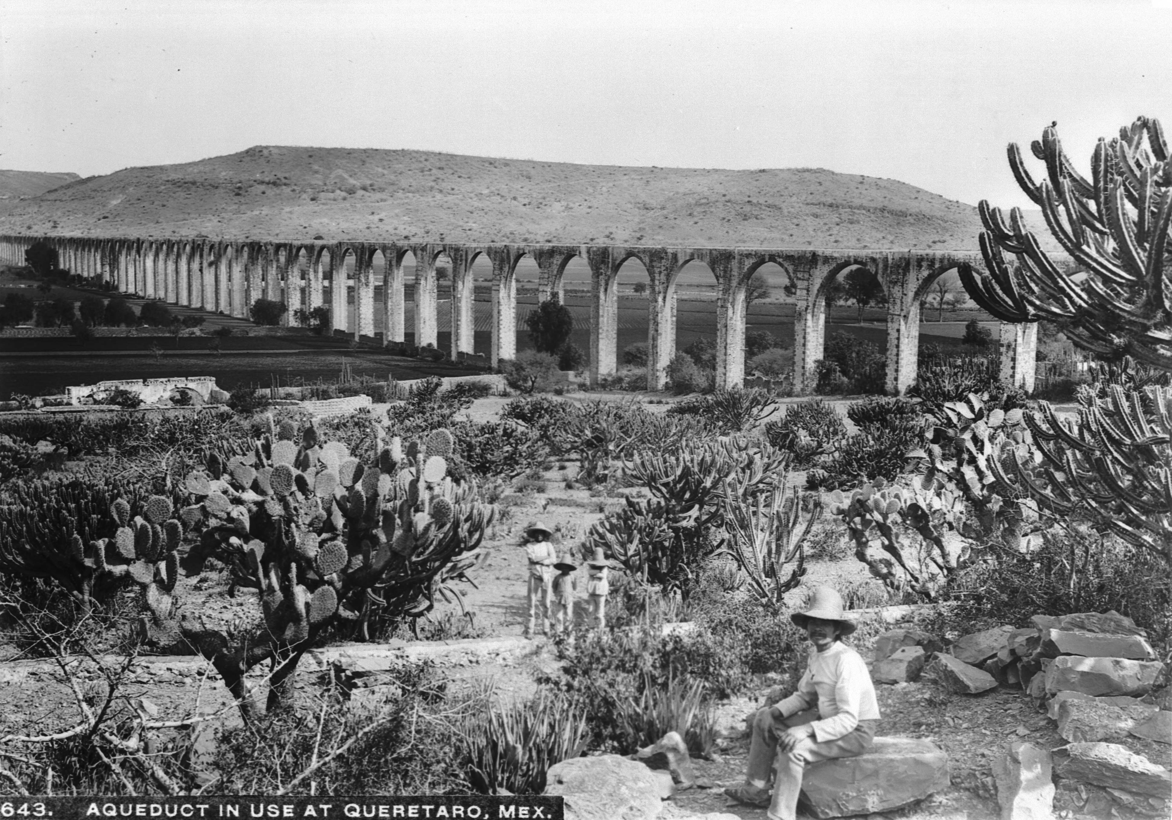 Aqueduct at Queretaro, Mexico, ca.1905-1910 Photograph of the aqueduct (Los Arcos) at Queretaro, Mexico, ca.1905-1910. Built 1726-1735, it was still in use in about 1910. A young man in a sombrero sits on a stone among many cacti in the foreground. Three other people, facing the camera, are visible further in the distance. Behind them is the aqueduct and behind it are cultivated fields and the mountains. Call number: CHS-643 Filename: CHS-643 Coverage date: circa 1905/1910 Part of collection: California Historical Society Collection, 1860-1960 Type: images Part of subcollection: Title Insurance and Trust, and C.C. Pierce Photography Collection, 1860-1960 Repository name: USC Libraries Special Collections Format: glass plate negatives Microfiche number: 1-224- Archival file: chs_Volume89/CHS-643.tiff Geographic subject (city or populated place): Queretaro; Santa Rosa Repository address: Doheny Memorial Library, Los Angeles, CA 90089-0189 Subject (adlf): manmade features Geographic subject (country): Mexico Format (aacr2): 2 photographs : glass photonegative, photoprint, b&w ; 13 x 21 cm., 17 x 22 cm. Rights: Digitally reproduced by the USC Digital Library; From the California Historical Society Collection at the University of Southern California Project: USC Accession number: 643 Repository Contributing entity: California Historical Society Date created: circa 1905/1910 Publisher (of the digital version): University of Southern California. Libraries Format (aat): photographic prints; photographs Legacy record ID: chs-m14543; USC-1-1-1-14150 Access conditions: Send requests to address or e-mail given. Phone (213) 821-2366; fax (213) 740-2343. Subject (file heading): Mexico -- Santa Rosa Subject (lcsh): Aqueducts -- Mexico